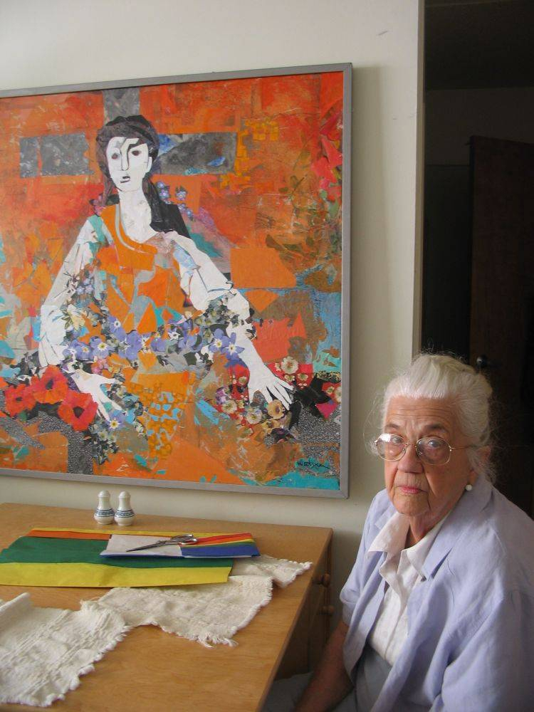 Artist Eugenia Woolman poses with one of her last collages, a self portrait.